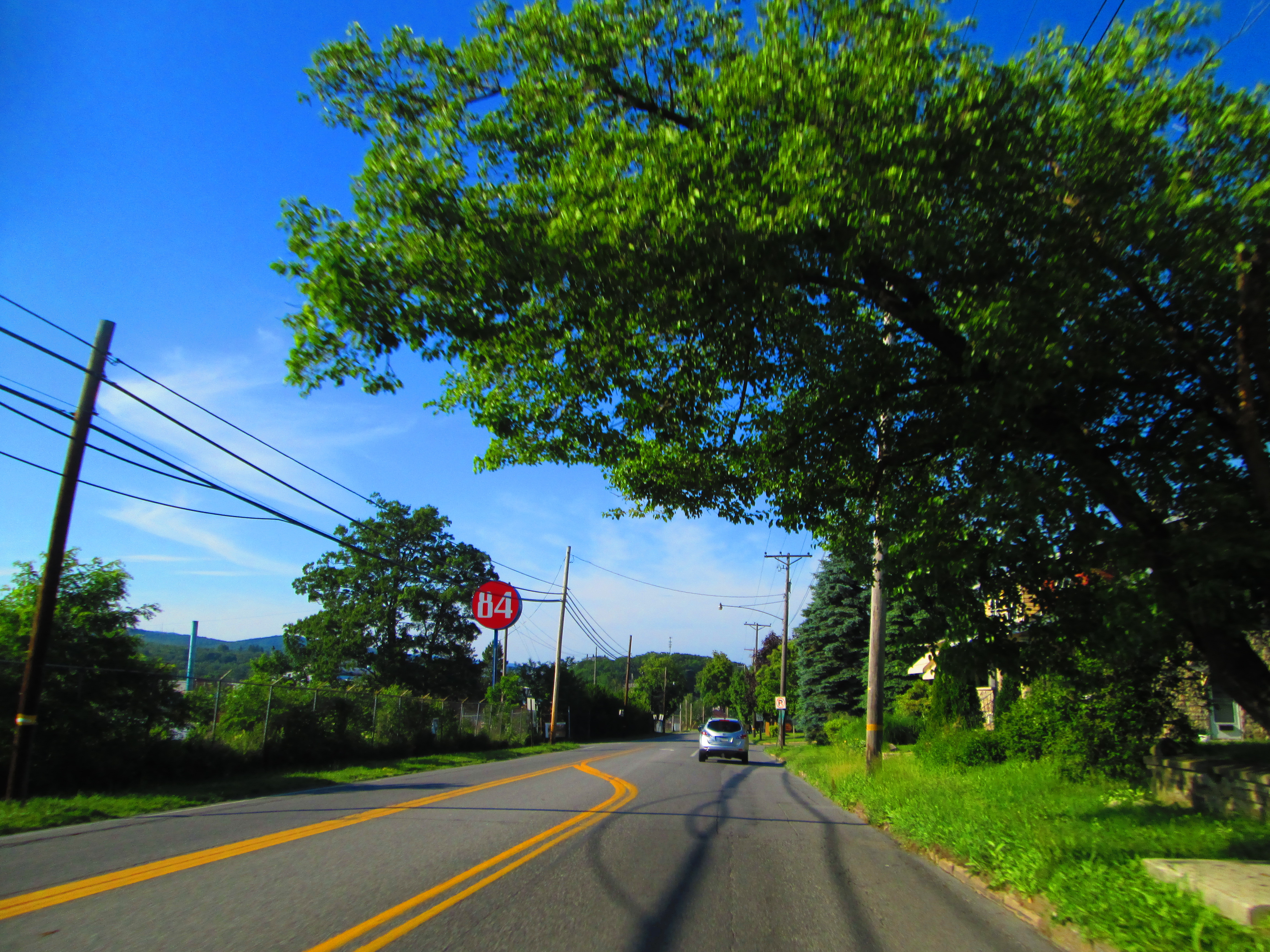 Pennsylvania Route 764 passing an 84 Lumber south of Altoona, Pennsylvania.